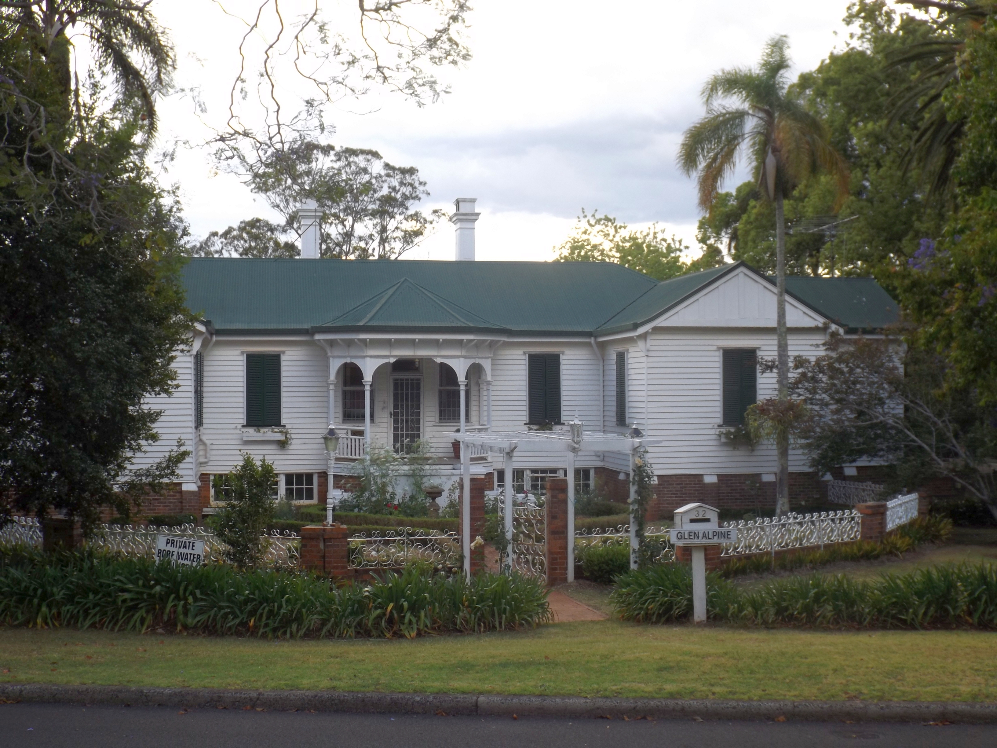 Photo of heritage-listed Glen Alpine residence at Redwood, Toowoomba, Queensland, Australia.